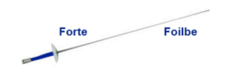 forte a foilbe cleddyf